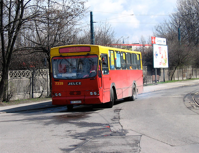 Jelcz M11 bus (#7339) in Chorzów, Poland. Built 1987, PKM Bytom operator. Autor Lesiu88